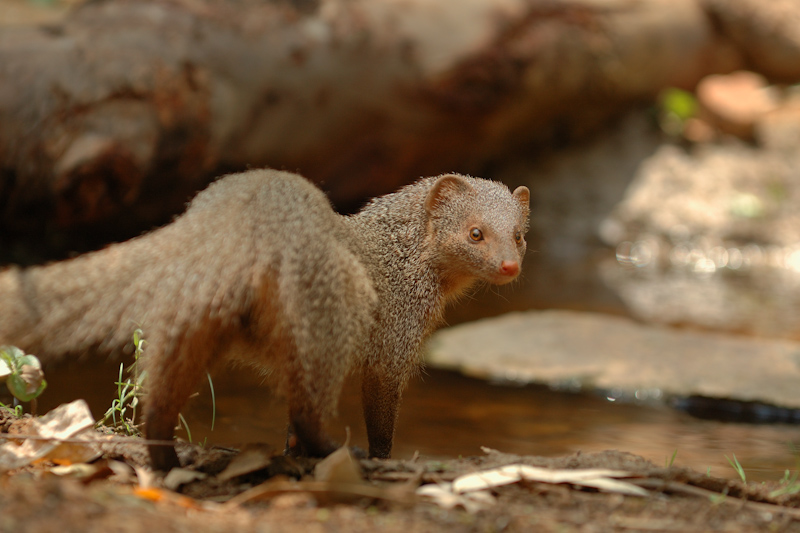 Indian Grey Mongoose. Photographed at Nagerhole, karnataka